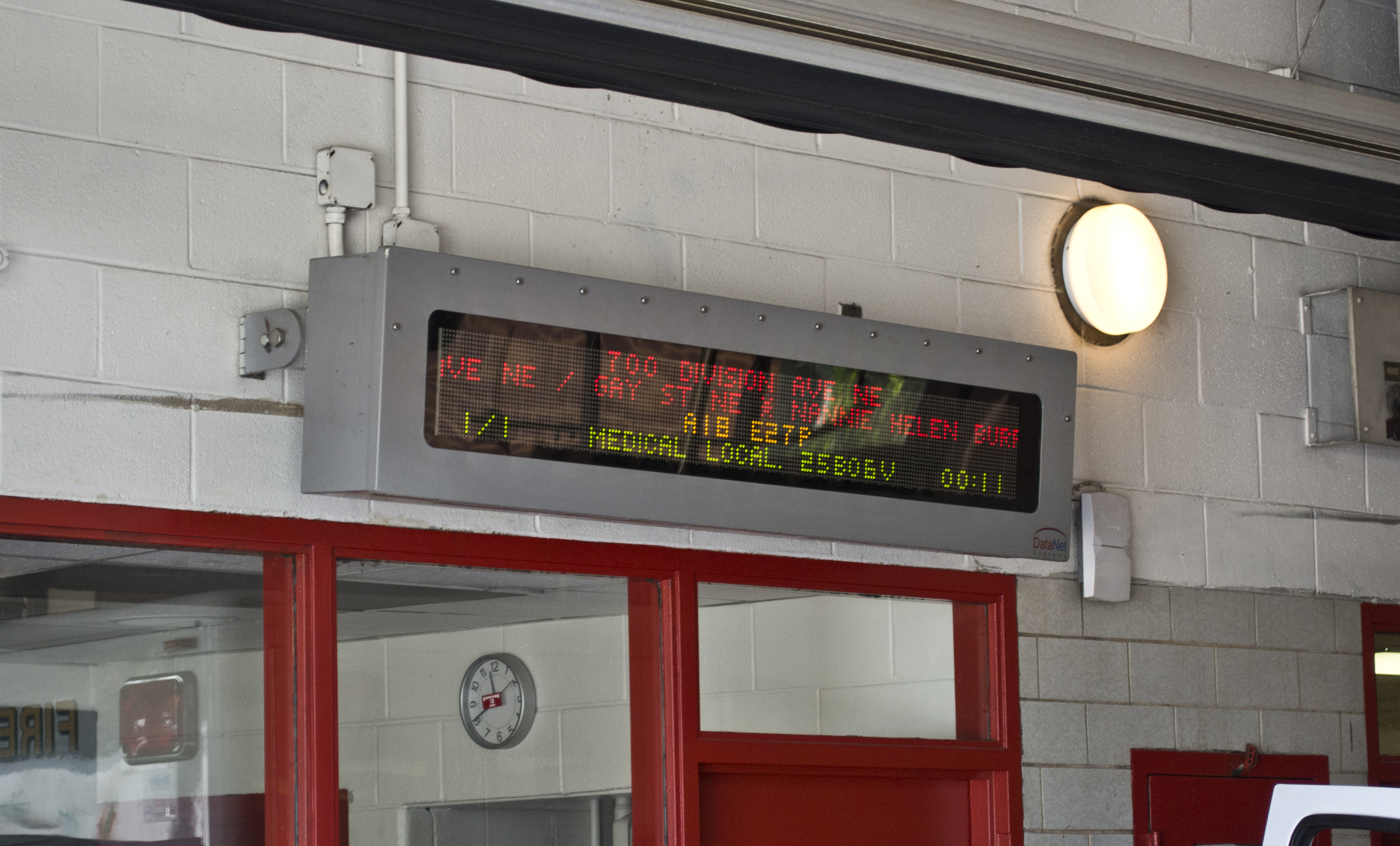 An alert or "stat emergency" board at Truck Company G, a fire station on 8th Street SE in Washington, D.C., in the United States. Truck Co. G is a unit of the D.C. Fire and Emergency Medical Services Department, and consists of Engine 18, Ladder Truck 7, and Ambulance 18.